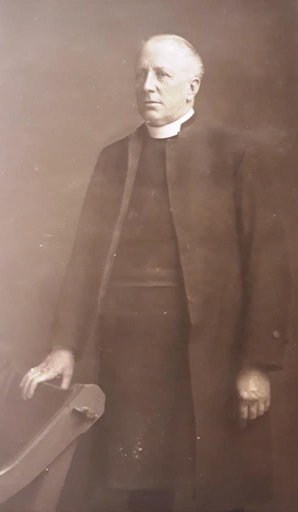 Edward Hardcastle, Anglican Cleric, Archdeacon of Canterbury (1924-1939)